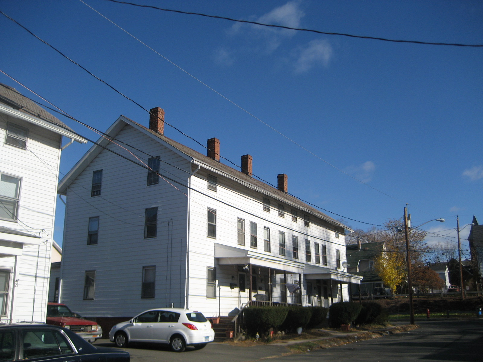 Mill worker housing, Thompsonville, Connecticut; part of the Bigelow-Hartford Carpet Mills Historic District.